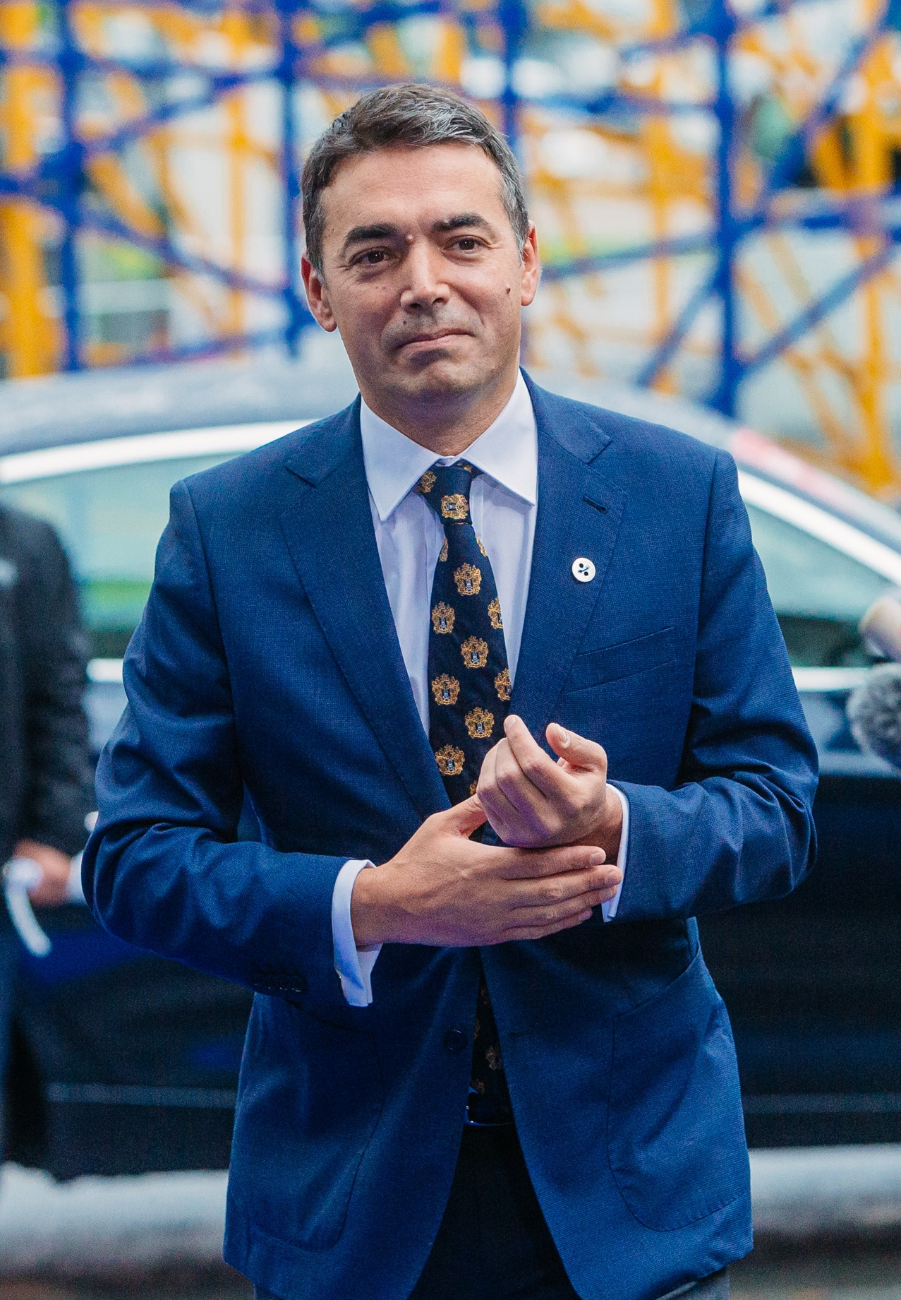 Nikola Dimitrov, Ministry of Foreign Affairs, Minister, Former Yugoslav Republic of Macedonia Photo: Arno Mikkor (EU2017EE)